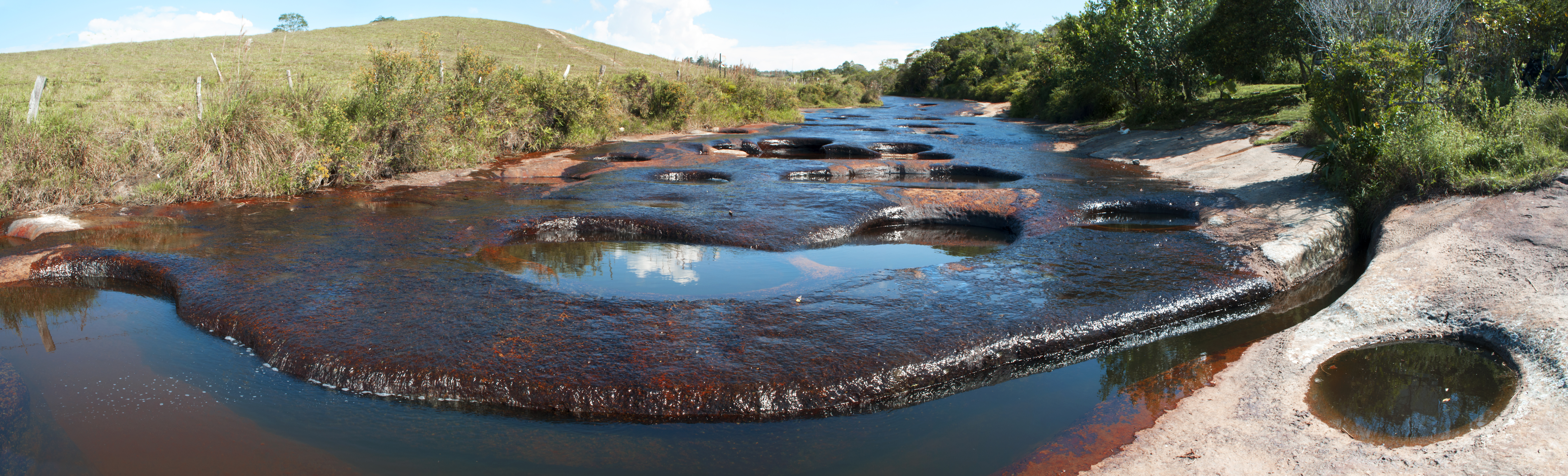 Las Gachas in Guadalupe, Santander, Colombia